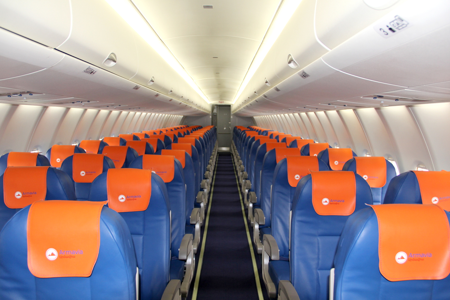 April 19, 2011. Delivery ceremony of the first production Sukhoi Superjet 100 SN 95007 to Armenian aircompany “Armavia” took place in Zvartnots airport. Yerevan (Armenia) Read the news here